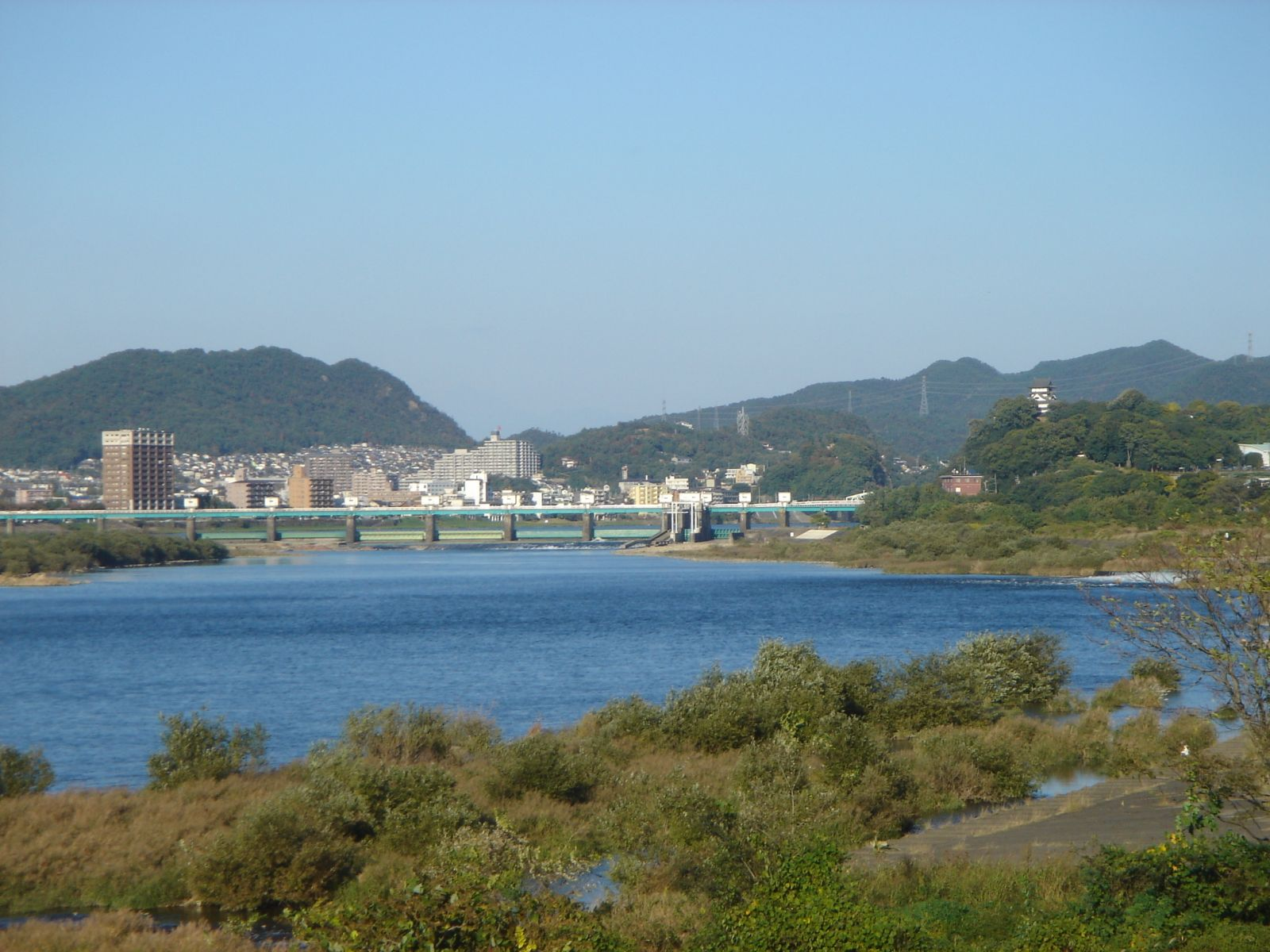 Rhine Bridge over Kiso River(犬山頭首工ライン大橋),Inuyama,Gifu,Japan(岐阜県犬山市)で左岸下流より撮影（左岸）